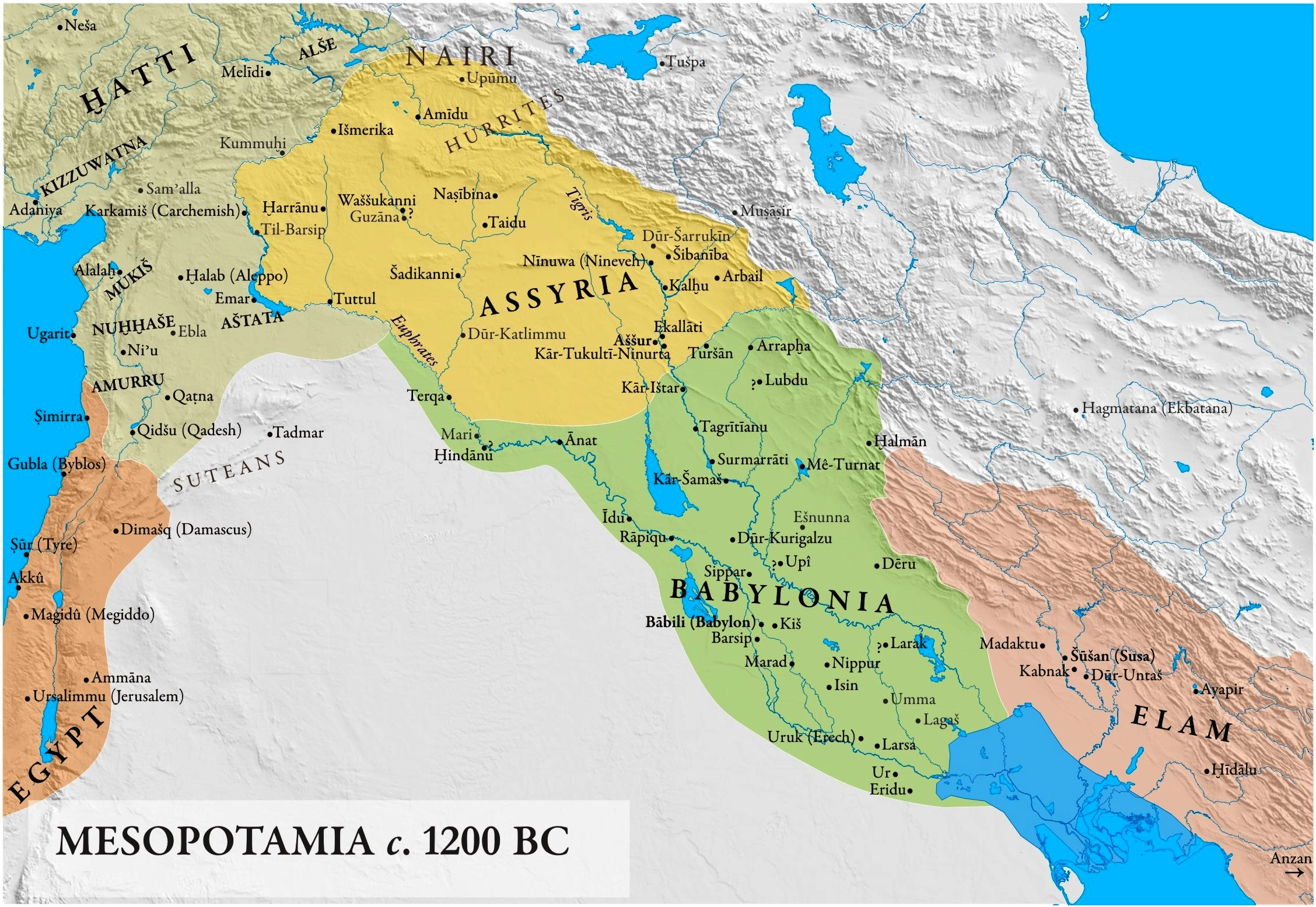 Mesopotamia c. 1200 BC.